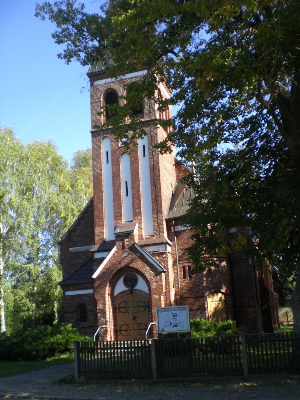 Church in Hintersee, Vorpommern